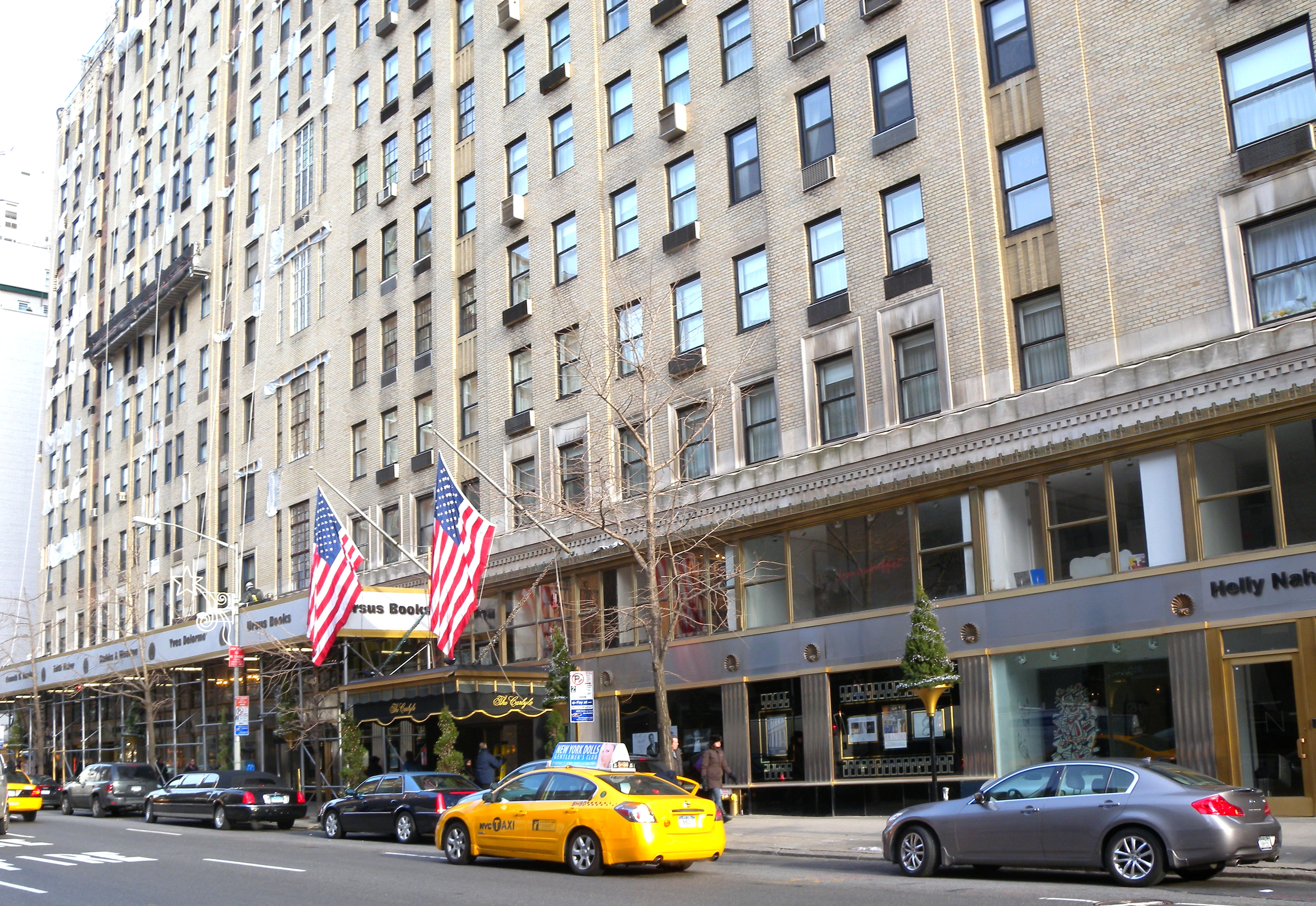 Looking northeast across Madison Avenue and 76th Street at Carlyle Hotel on a cloudy afternoon.